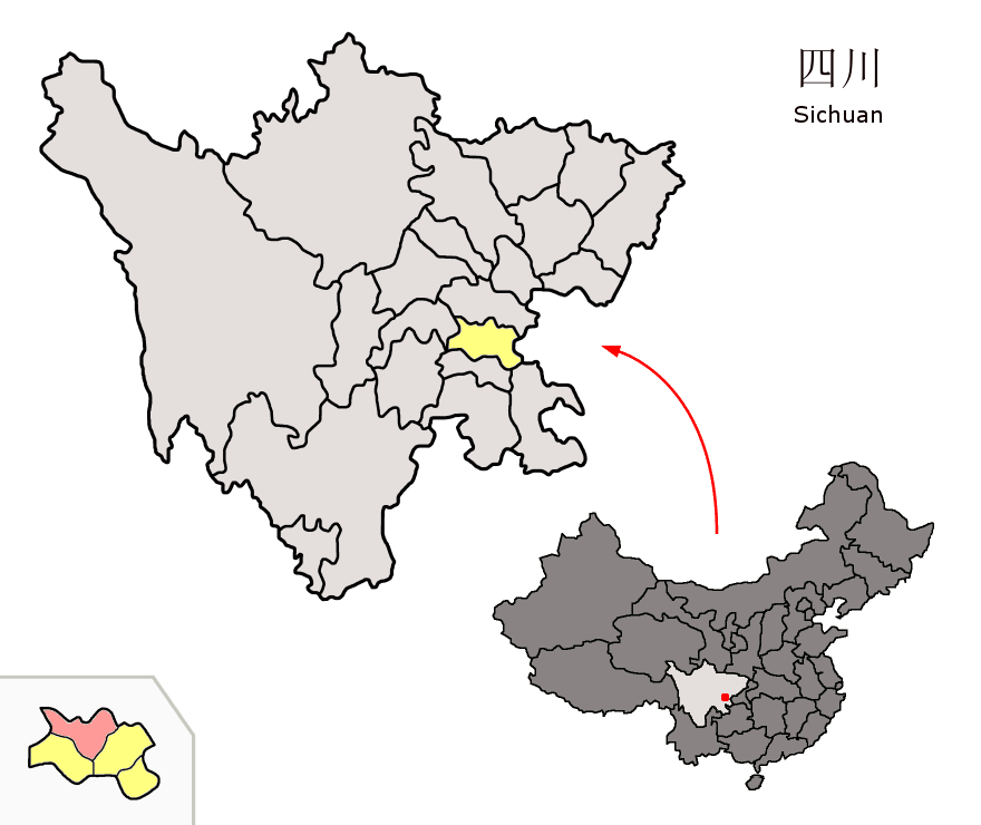 Location of Zizhong County (pink) and Neijiang Prefecture (yellow) within Sichuan province of China Map drawn in october 2007 using various sources, mainly : Sichuan province administrative regions GIS data: 1:1M, County level, 1990 Sichuan Counties map from